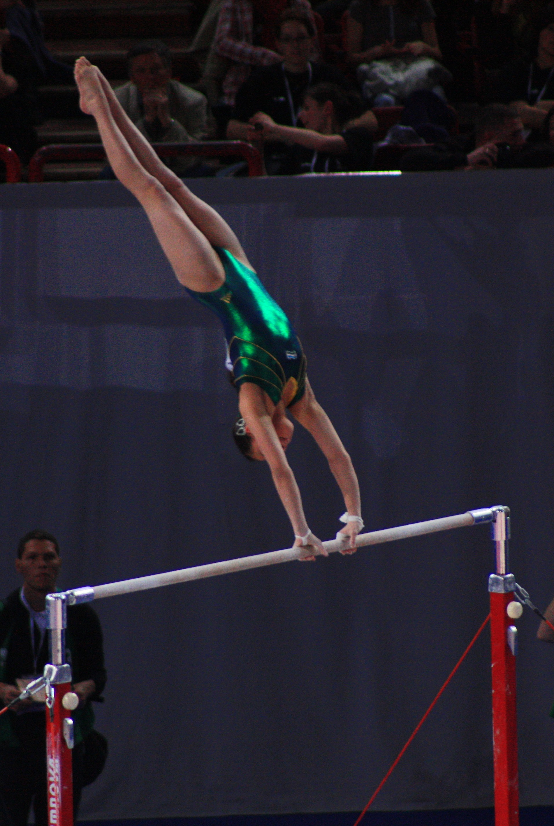 Asal Saparbaeva in the qualification round of uneven bars at the 17th Internationaux de France de gymnastique artistique, in 2010.